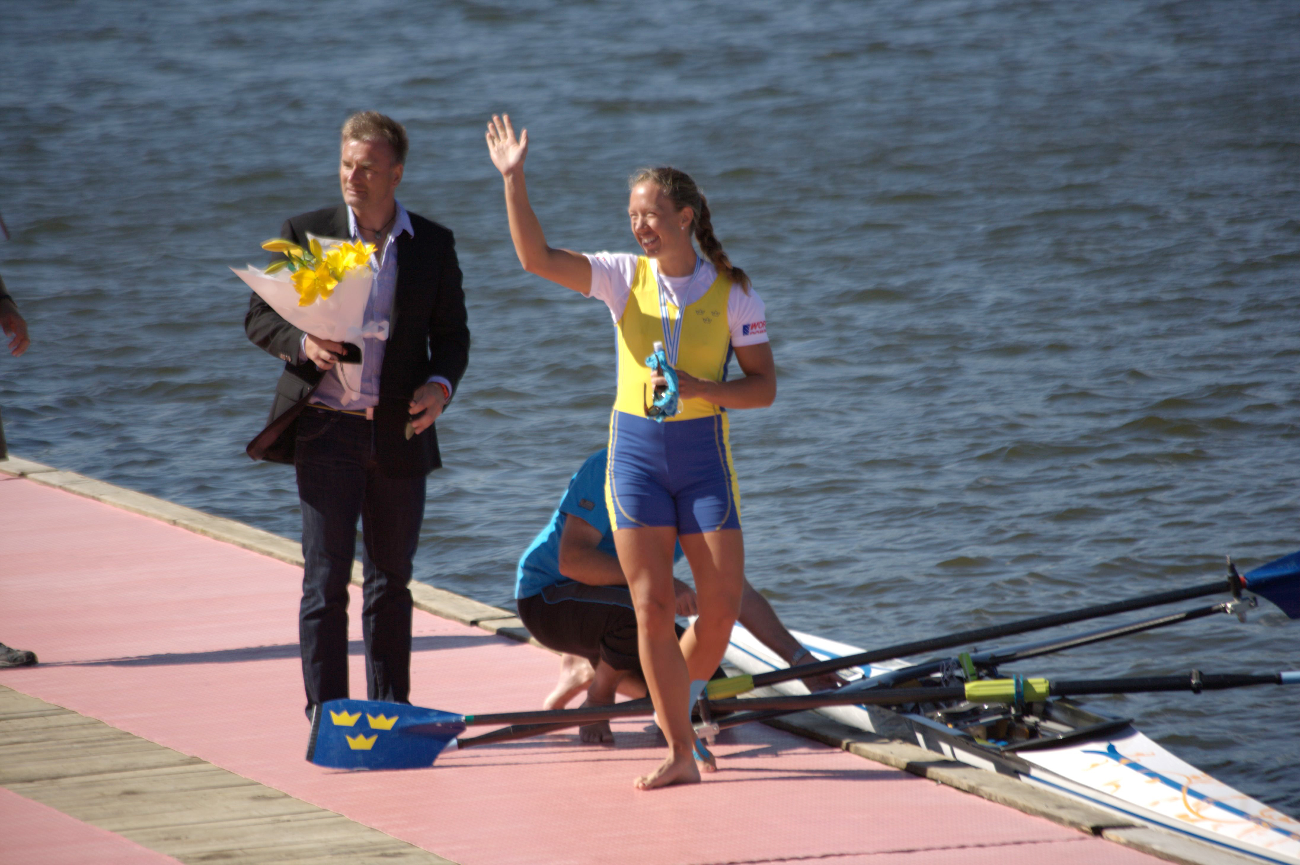 The new women's singles world champion. 2010 World Rowing Championships.